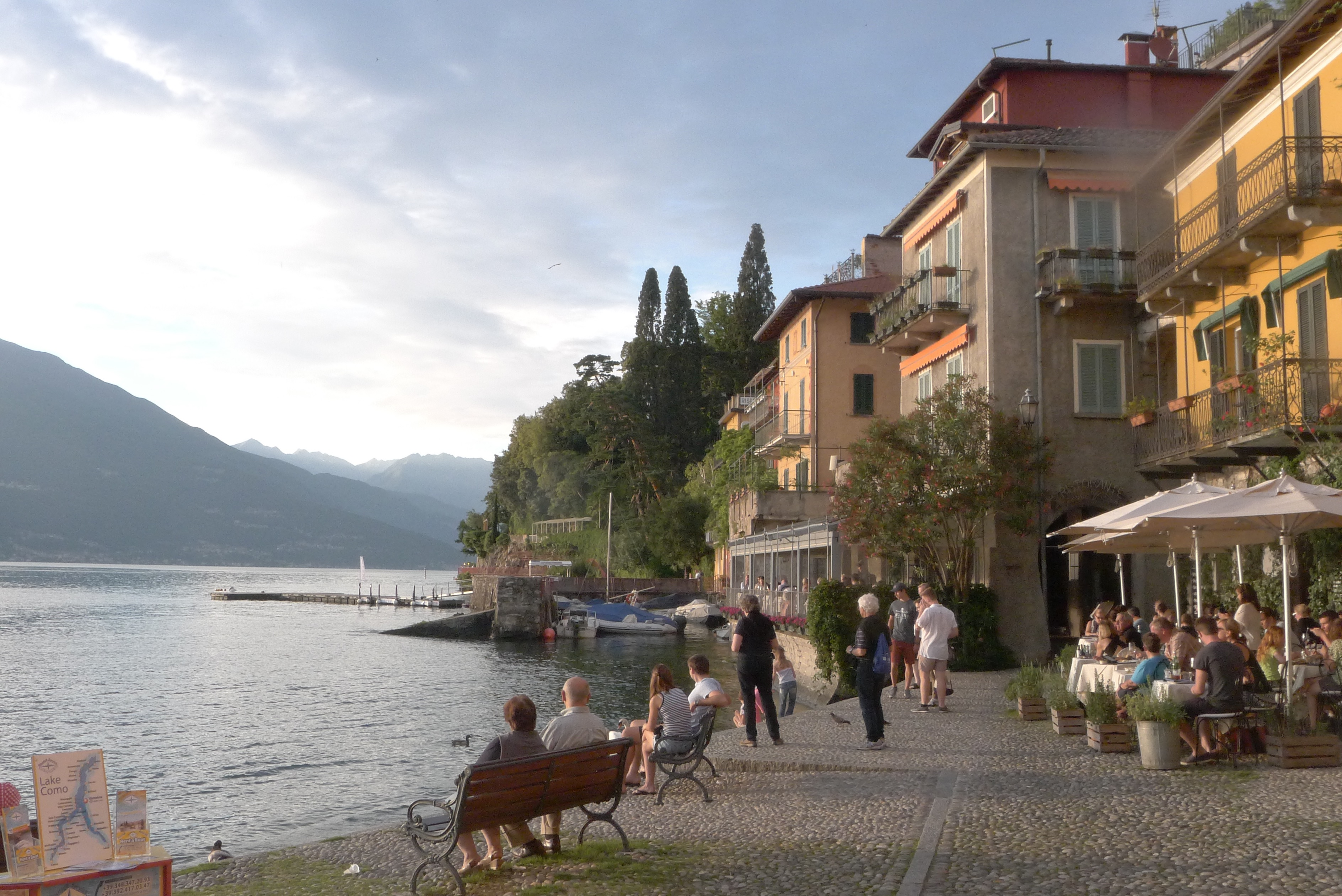 Varenna, Italy. View of the Lake Como waterfront at sunset.